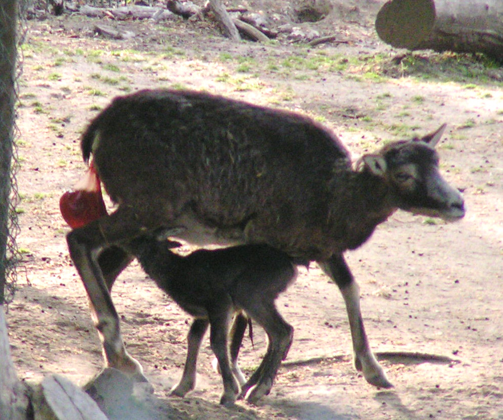 Newly born mouflon at "Wildpark Reuschenberg", Leverkusen, Germany